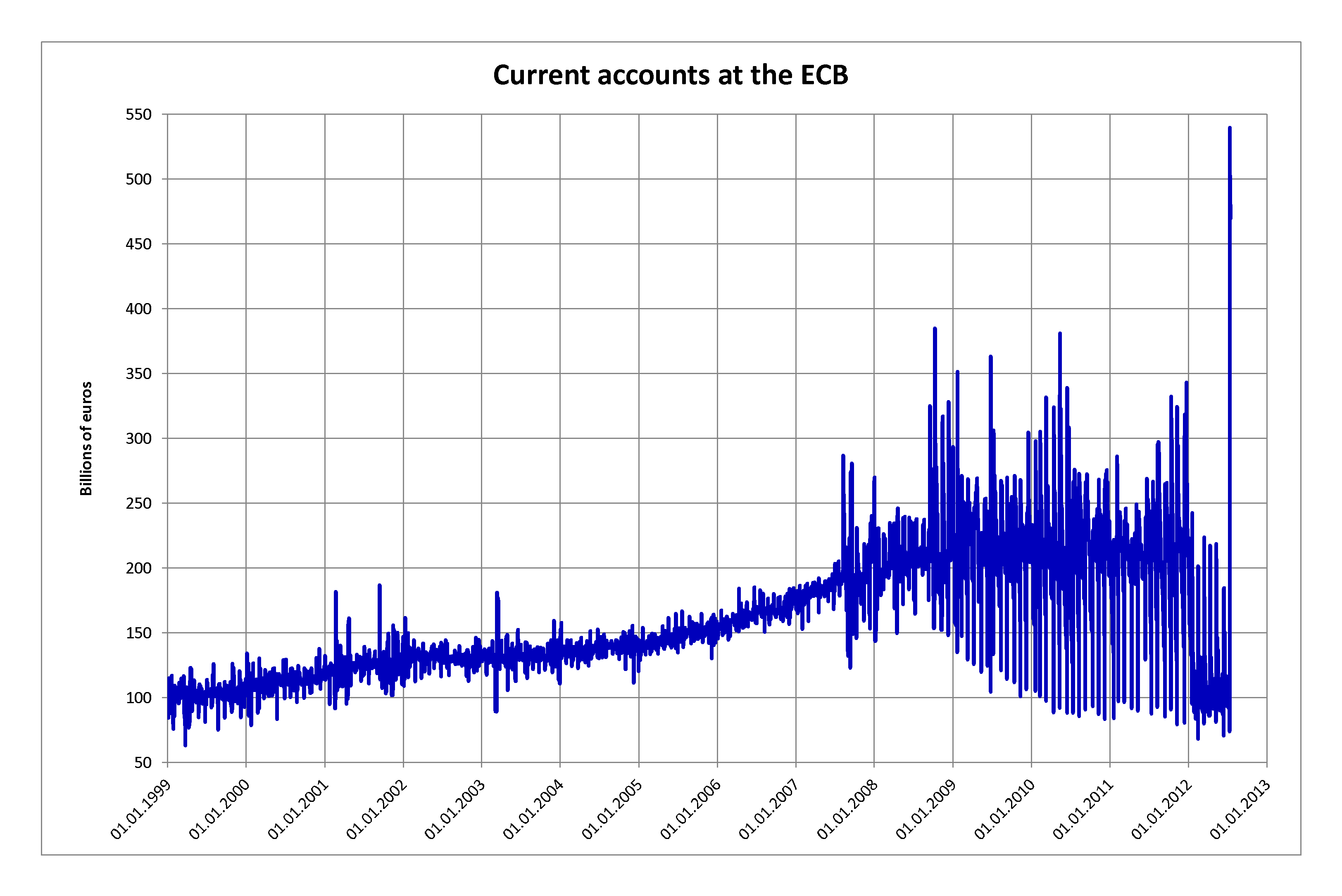 Current account holdings of commercial banks at the European Central Bank from January 1999 to July 2012 (daily data in billions of euros)